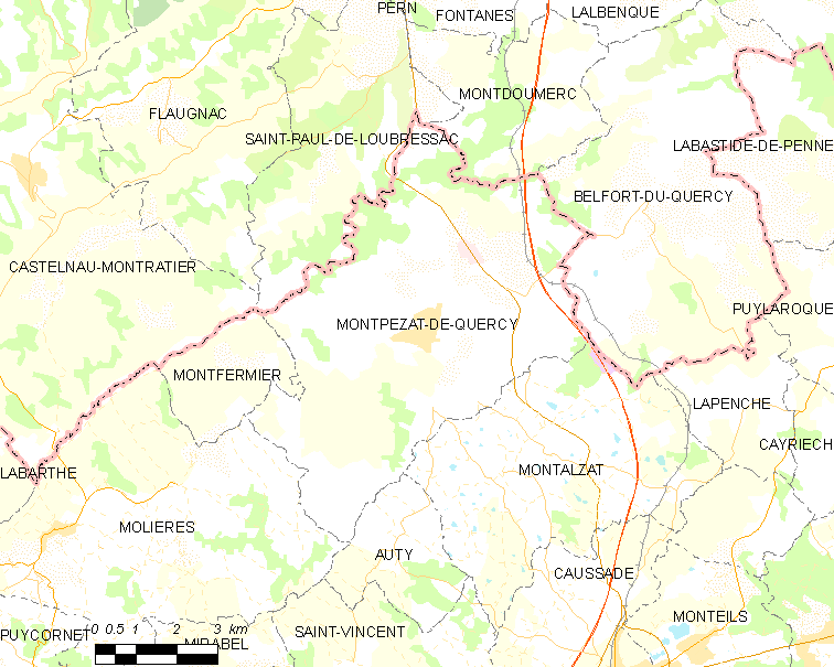 Map of French municipality Montpezat-de-Quercy